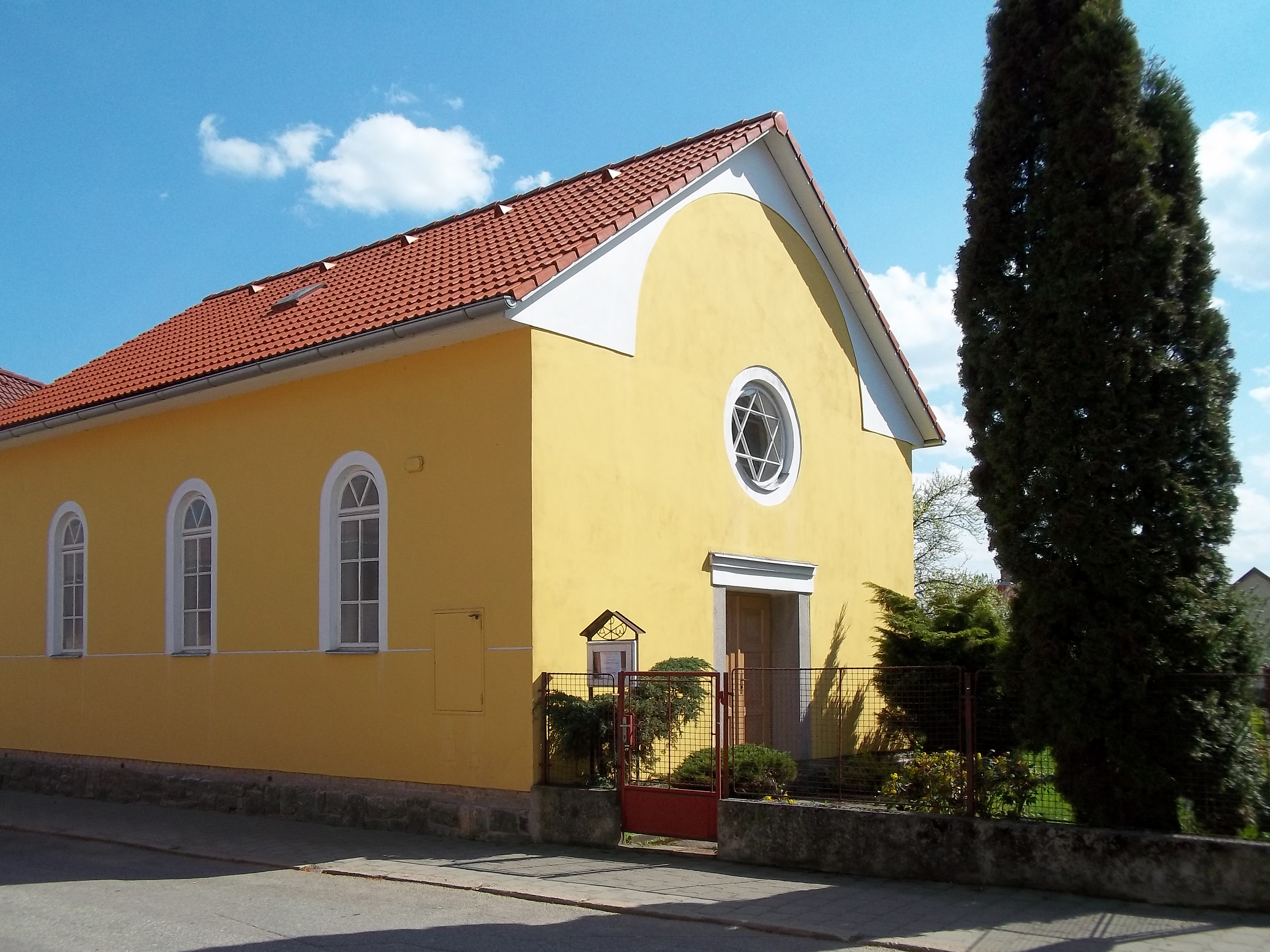 Synagogue in the town of Kamenice nad Lipou, Pelhřimov District, Czech Republic